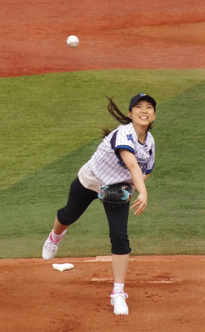 Yuriko Takahata, announcer of the Tokyo Broadcasting System Television, at Yokohama Stadium.